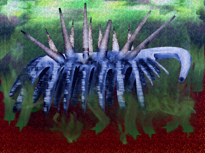 Created using GIMP for use on Wikipedia by Scorpion451 This is a depiction of the cambrian period creature Hallicigenia, based on various descriptions and the fossils themselves. It is not directly based on any particular artists rendering, and thus is my own work, although several were referenced to confirm the proper depicition of the creature.